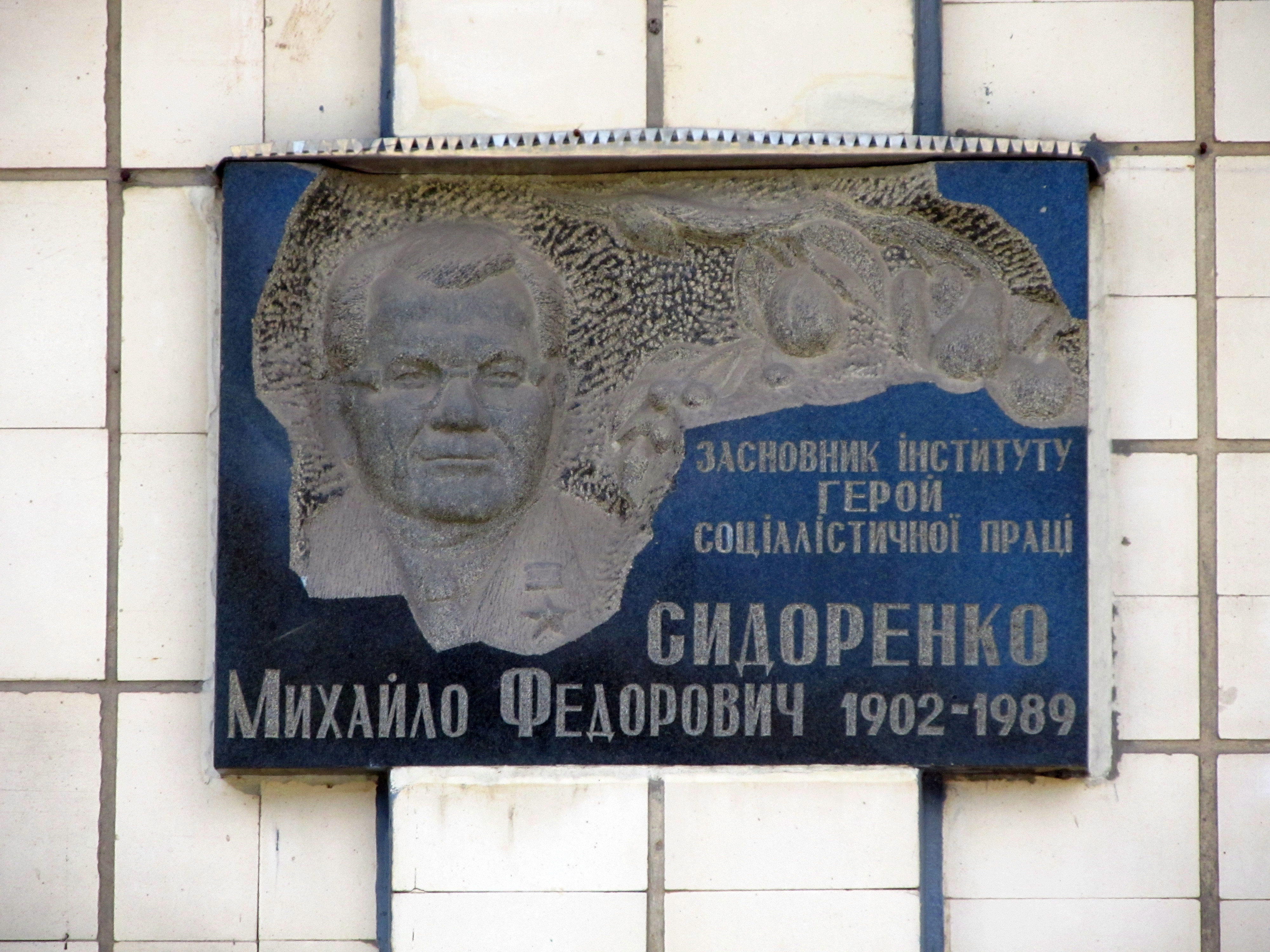 Vakulenchuka Street (Melitopol, Zaporizhia Oblast, Ukraine).